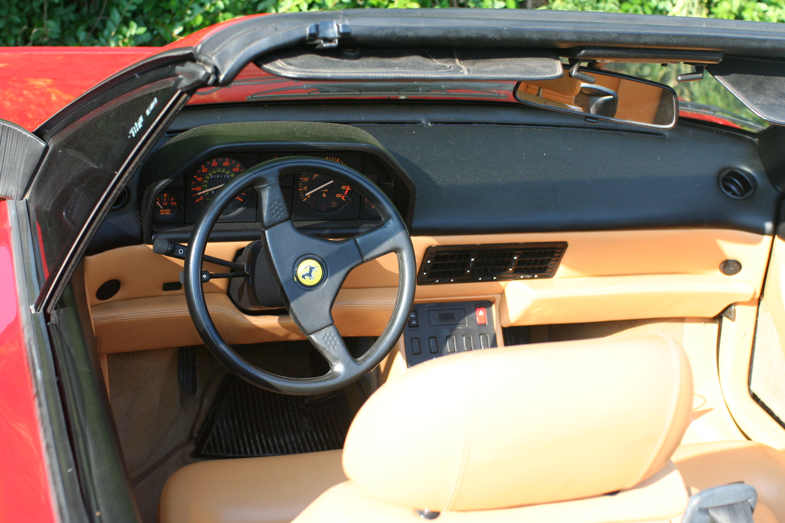 Dashboard of 1991 Ferrari Mondial t cabriolet.